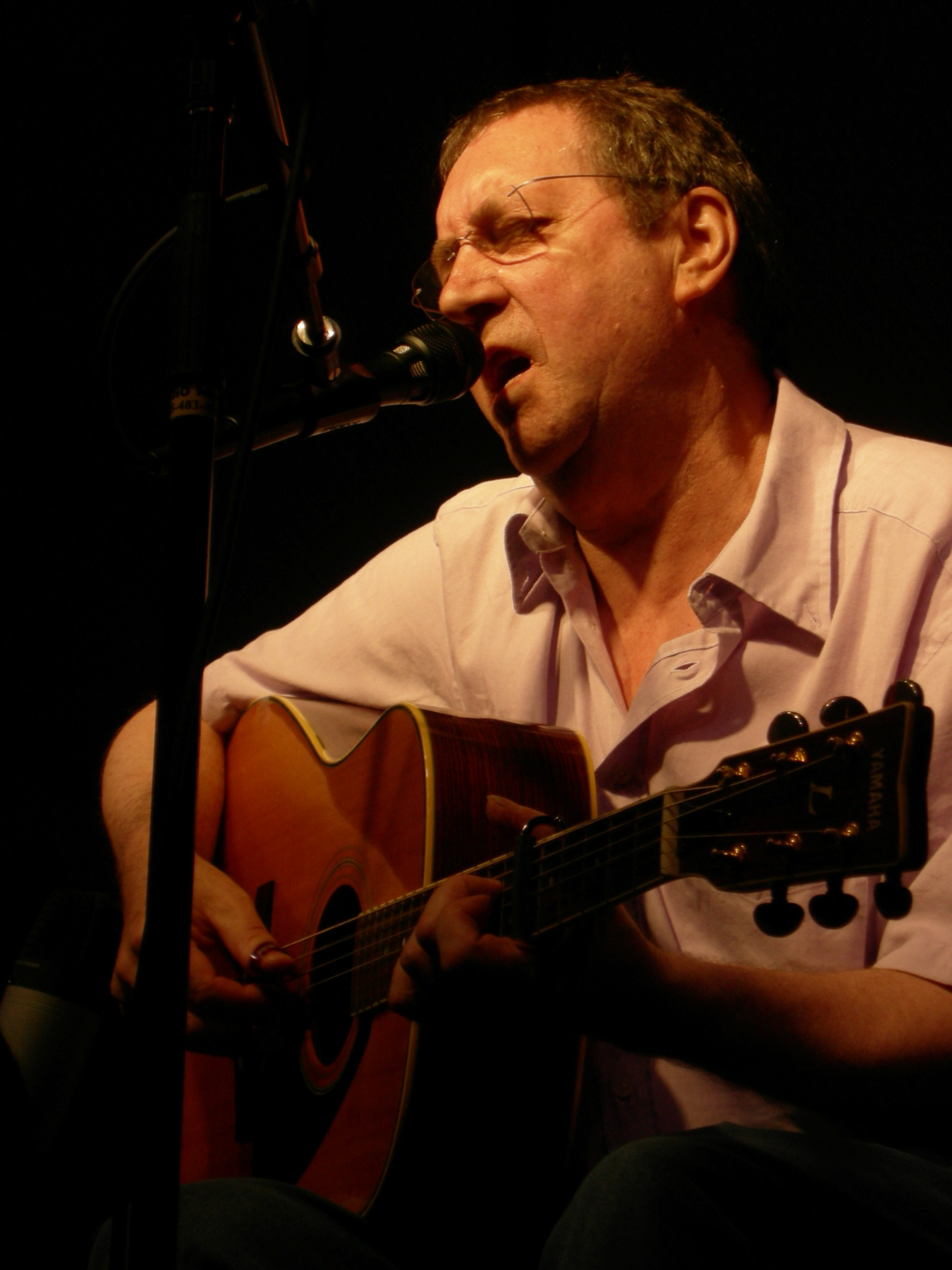 Bert Jansch performs at Bumbershoot, a music and arts festival held every Labor Day weekend at Seattle Center, Seattle, Washington, USA.